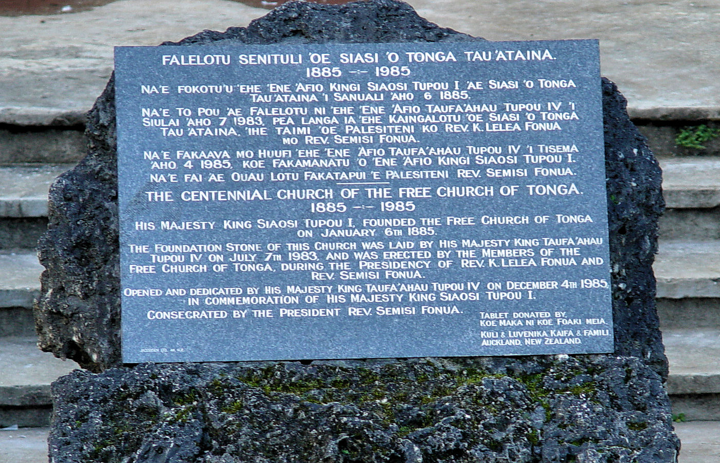 Description table standing next to The Free Church of Tonga, Nuku'alofa